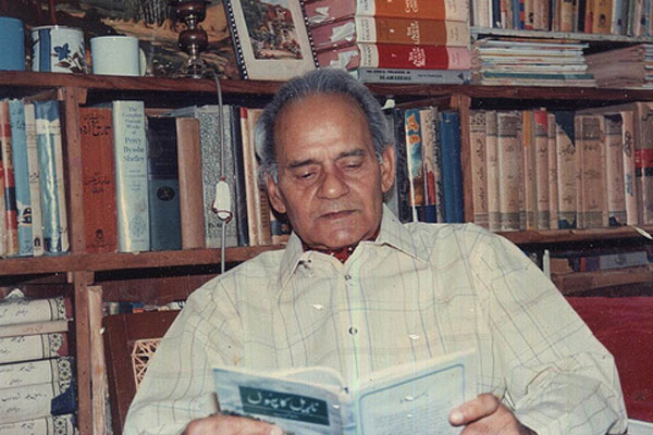 The write for famous Urdu TV drama serial, Ainak Wala Jin